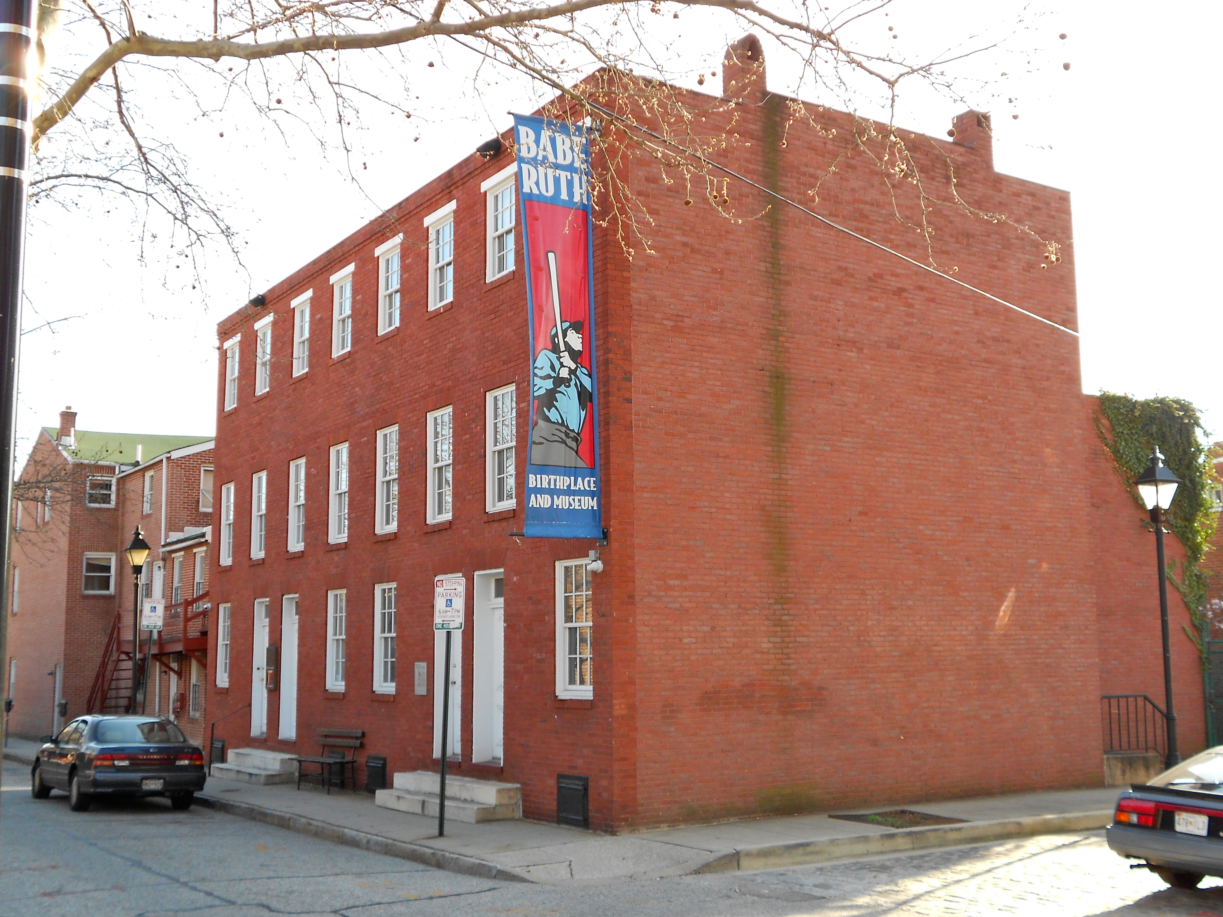 Birthplace of Babe Ruth - a museum in the Ridgely's Delight Historic District on the NRHP since June 6, 1980. The historic district is roughly bounded by S. Fremont Ave. and W. Pratt, Conway, and Russell Sts. in south Baltimore, Maryland.